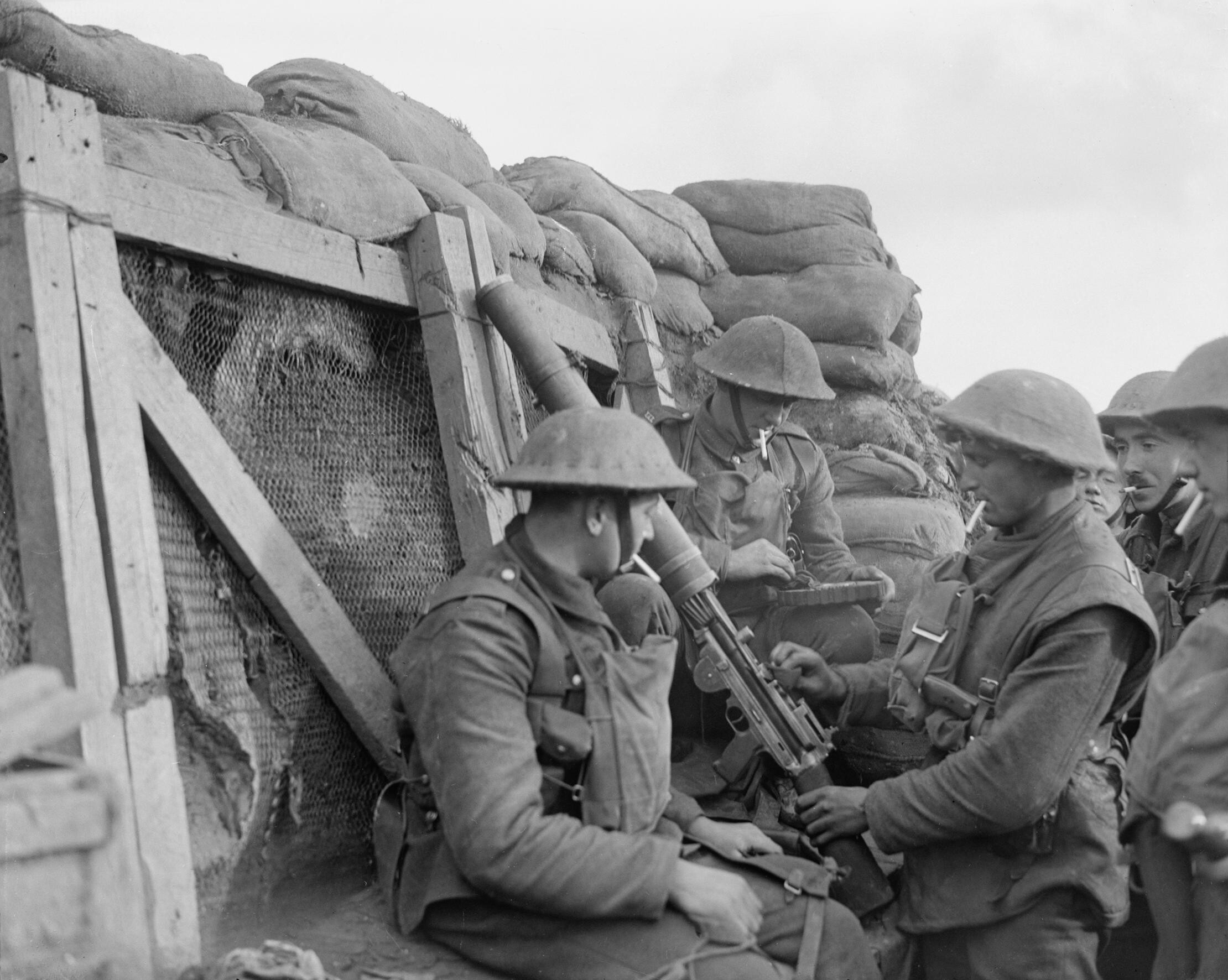 The British Army on the Western Front, 1914-1918 Men ofthe 6th Battalion, the York and Lancaster Regiment at a Lewis gun post, on the front line near Cambrin, 6 February 1918.